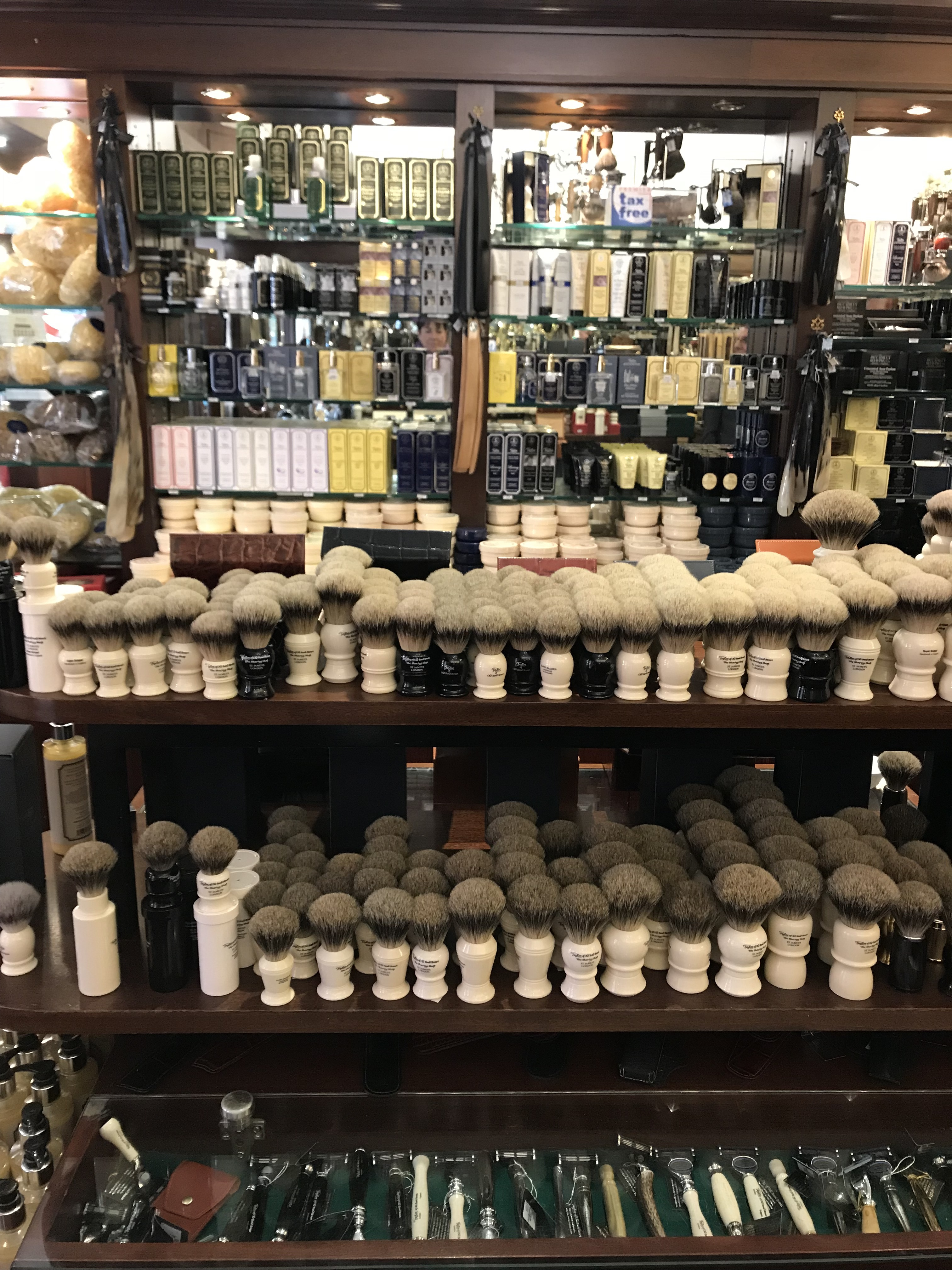 Shaving brush selection in a barber supply shop in London.